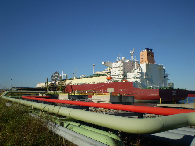 Mozah at the port of Bilbao. IMO Number: 9337755 MMSI Number: 538003212 Callsign: V7PD7 Length: 345 m Beam: 53 m